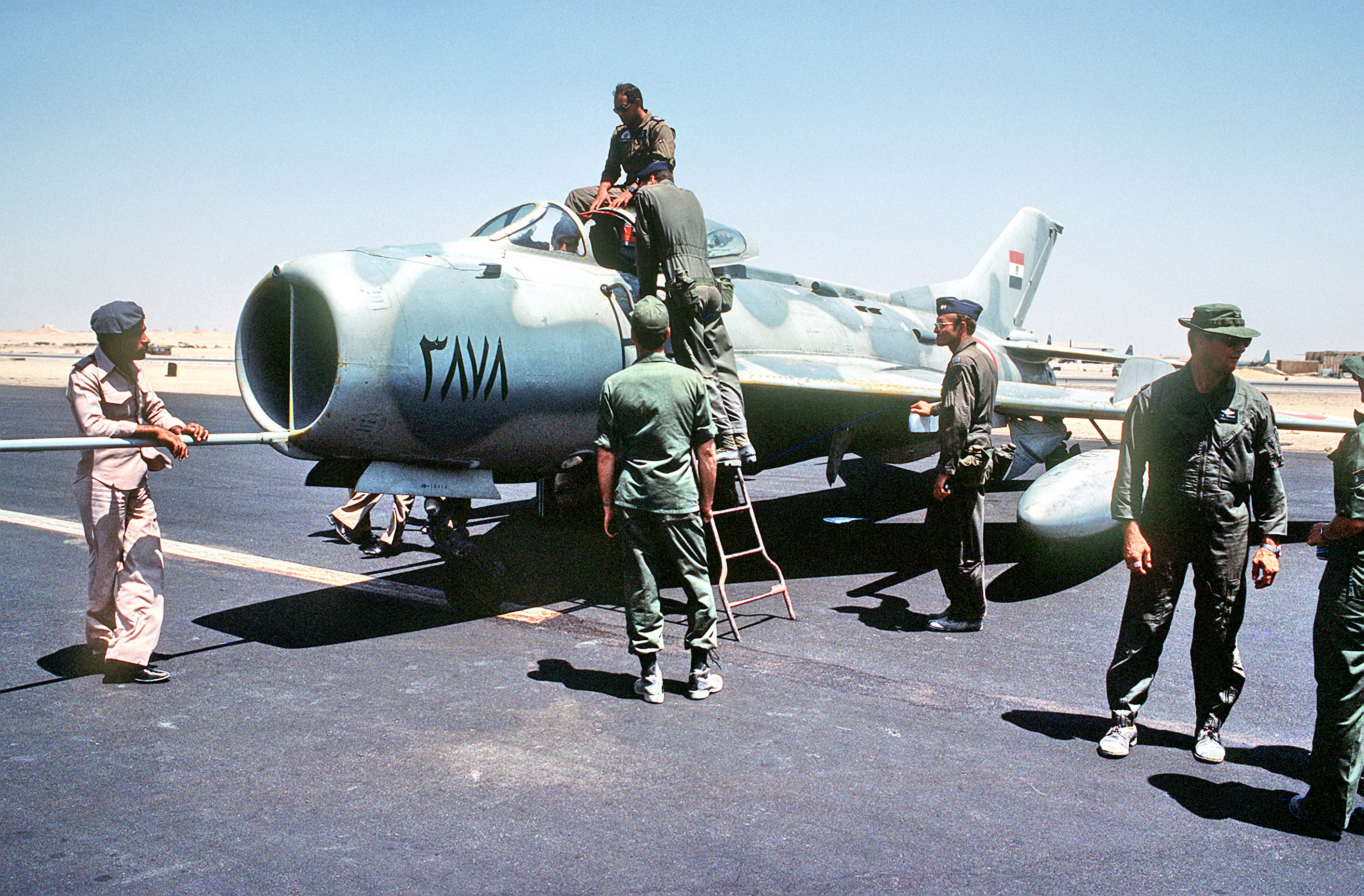 Air Force personnel inspect an Egyptian F-6 (Chinese MiG-19) aircraft (Soviet designed) on display during the joint exercise Bright Star '83.